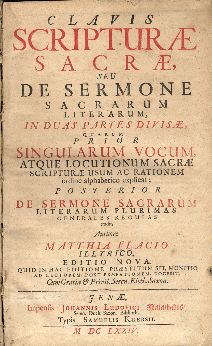 Cover of "Key to the Holy Scriptures" of Matija Vlacic Ilirik, 2nd edition.